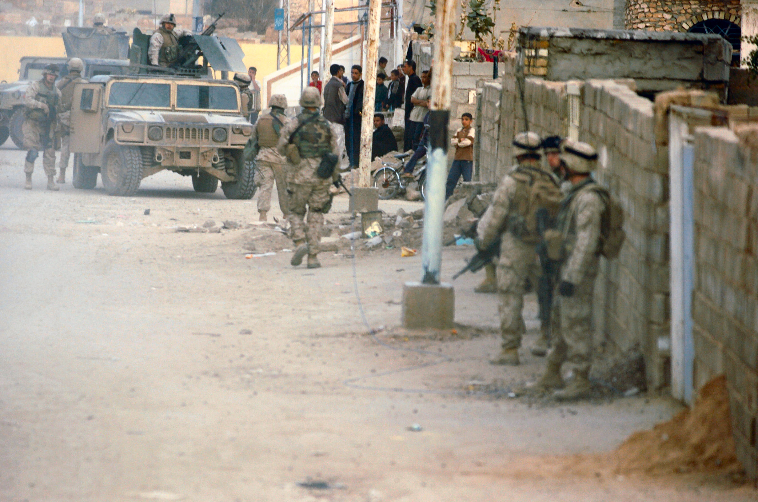 RAMADI, Iraq (Feb. 18, 2005) – U.S. Marines and Sailors assigned to 1st Marine Division, 2nd Battalion, 5th Marines, prepare to conduct house calls in Ramadi, Iraq, Feb. 18. During house calls troops make sure houses do not contain weapons caches or hide insurgents. Marines and sailors are currently conducting Operation River Blitz to limit the movement of insurgents by use of checkpoints in vital entry points to the city. U.S. Navy photo by Photographer's Mate 1st Class Shane T. McCoy.